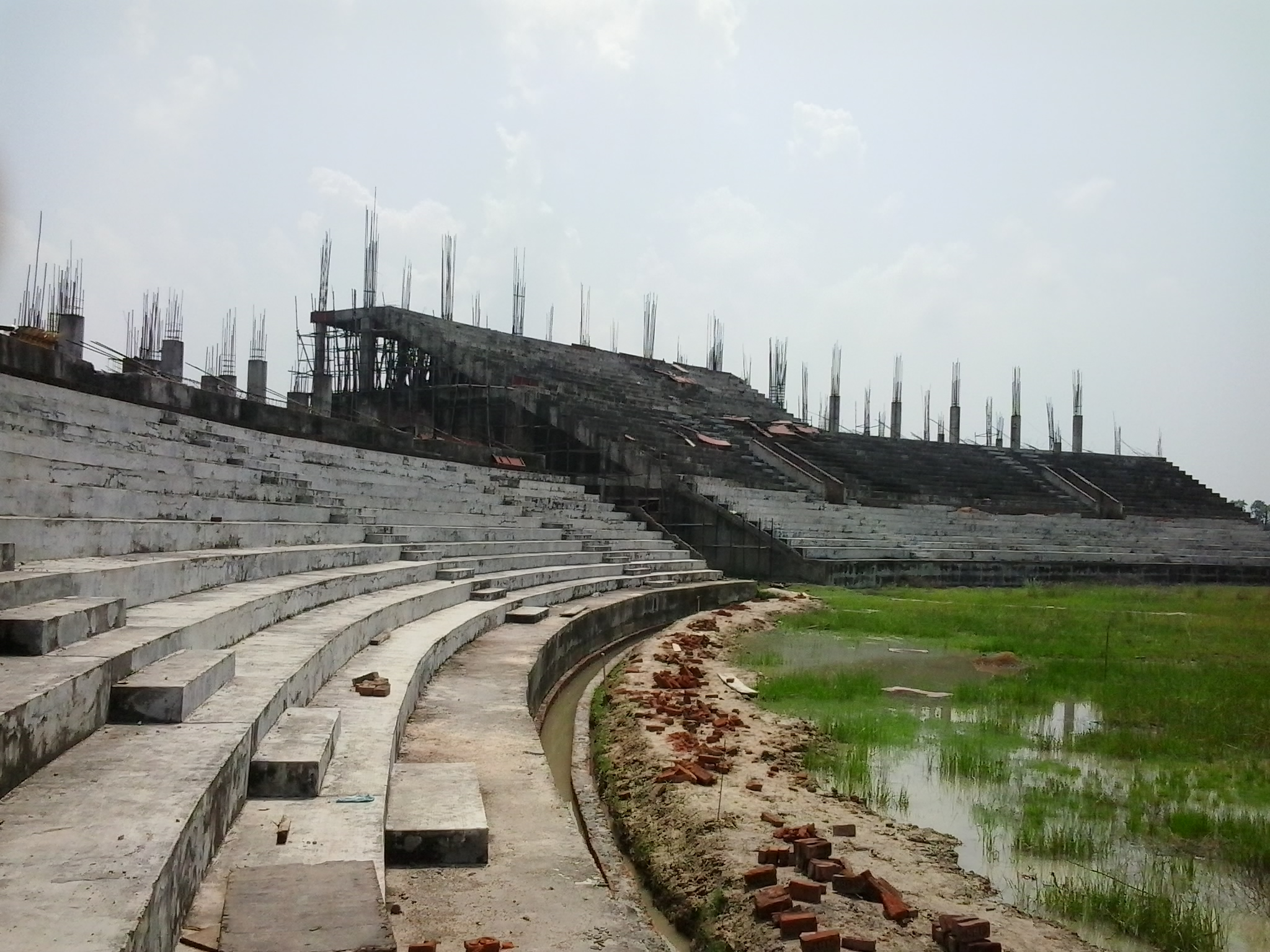 faizabad international stadium